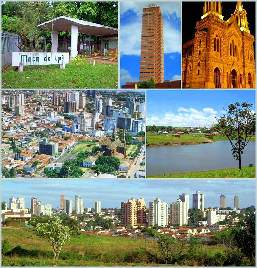 Montage about Uberaba, Minas Gerais, Brazil.